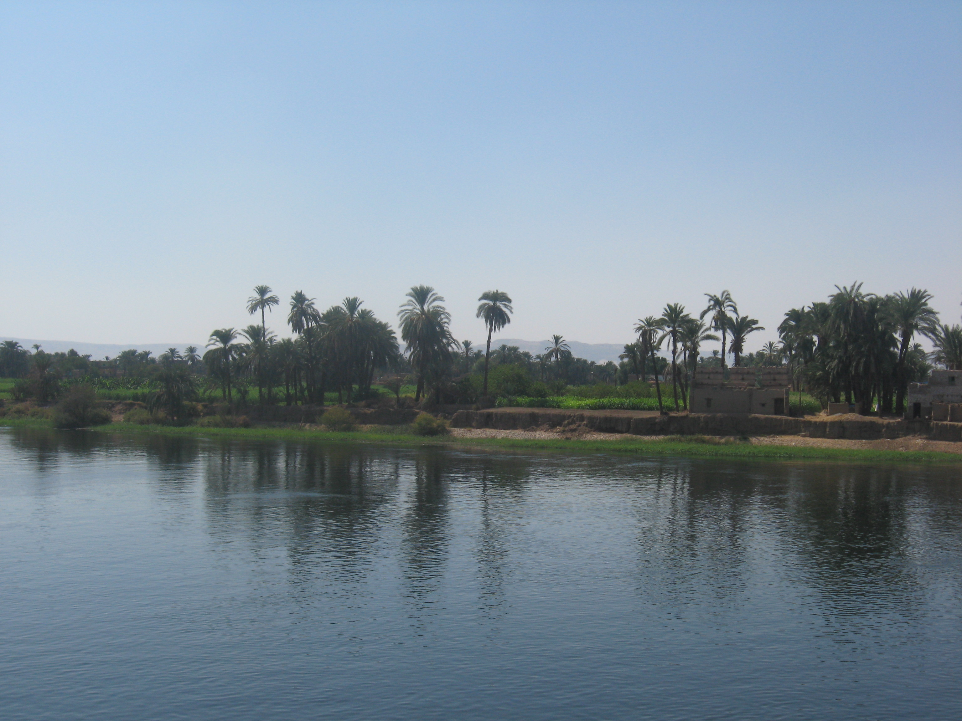 The Nile